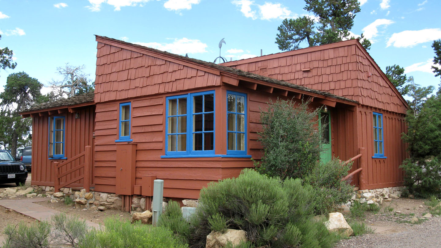 Bright Angel Lodge Cabin 6160-63 at the South Rim of the Grand Canyon, Grand Canyon National Park, Arizona, USA